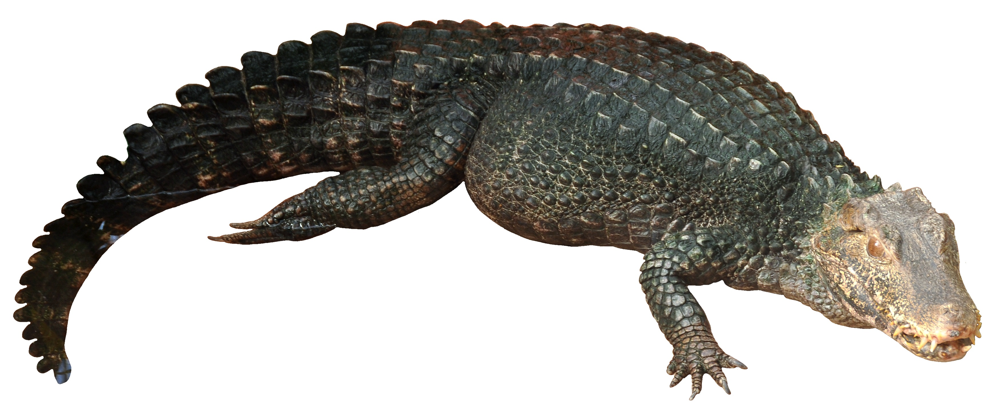 A Cuvier's Dwarf Caiman (Paleosuchus palpebrosus)